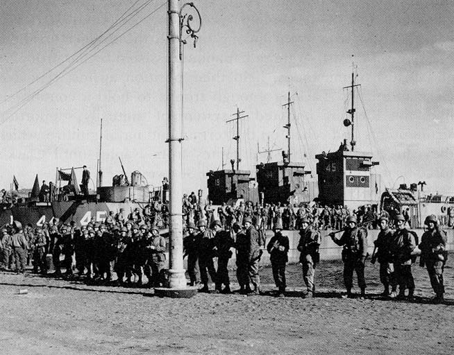 Photo: Soldiers of the 3d Ranger Battalion board LCIs that will take them to Anzio. Two weeks later, nearly all would be killed or captured at Cisterna (U.S. Army Photograph)